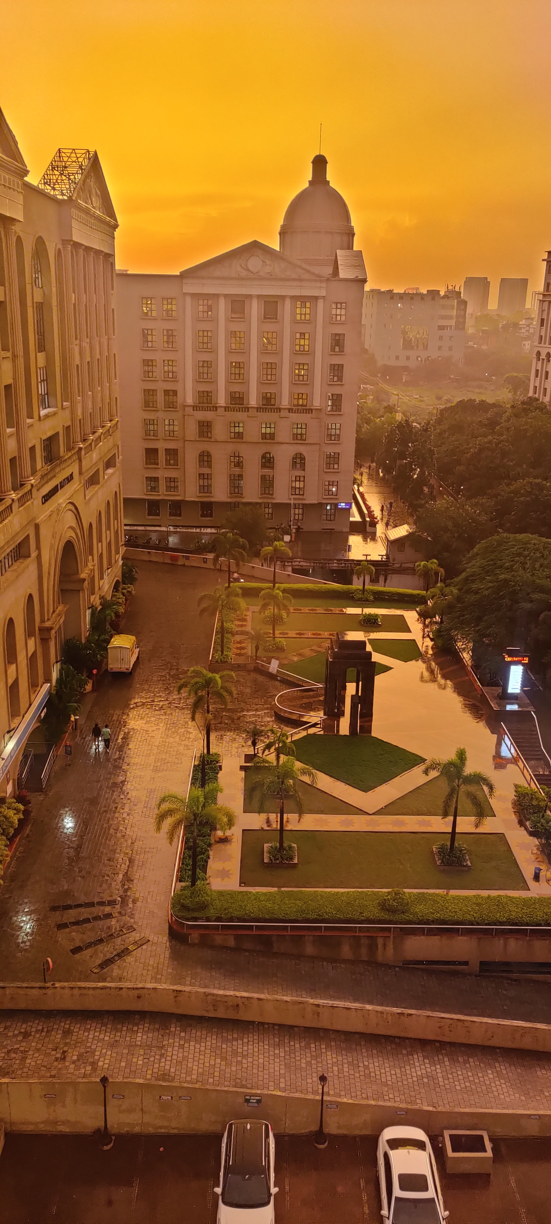 Enjoy Sunset View from B2 Building Cerebrum IT park. Mesmerizing view to cheer your soul.